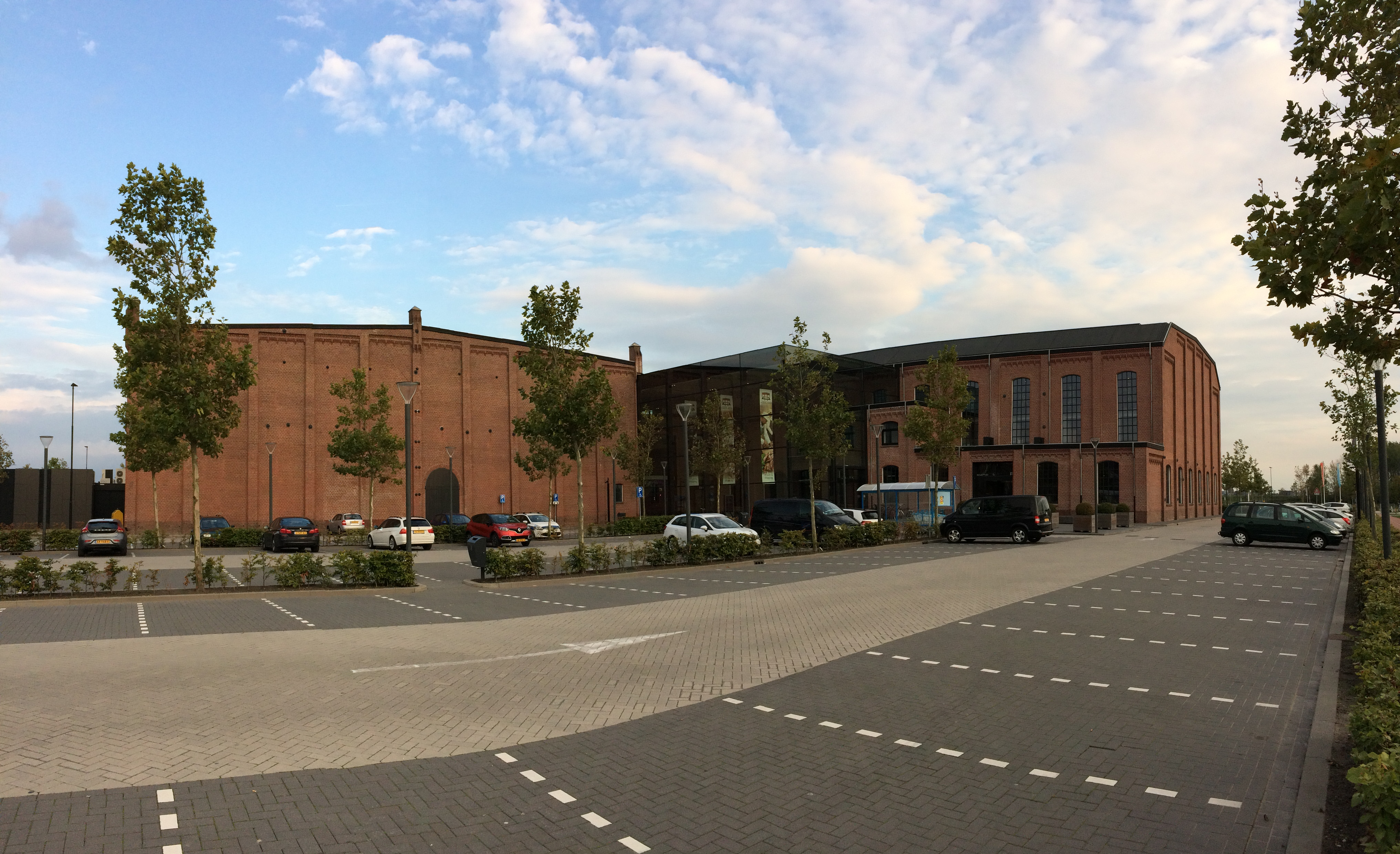 Voormalige suikerfabriek de Zeeland, Bergen op Zoom.